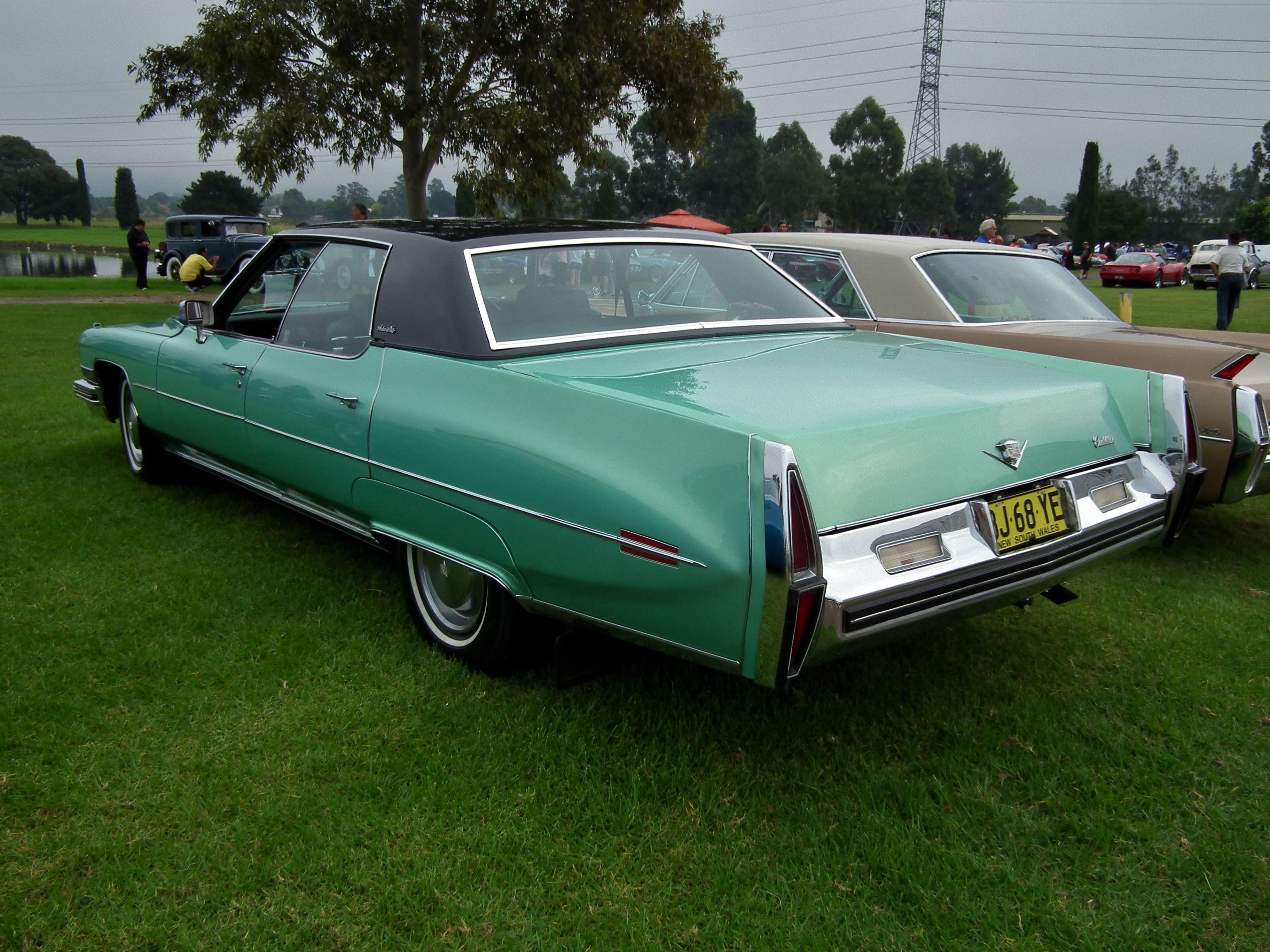 1973 Cadillac Sedan deVille. Taken at the General Motors Display Day, held in the grounds of Penrith Panthers Club, Penrith NSW.